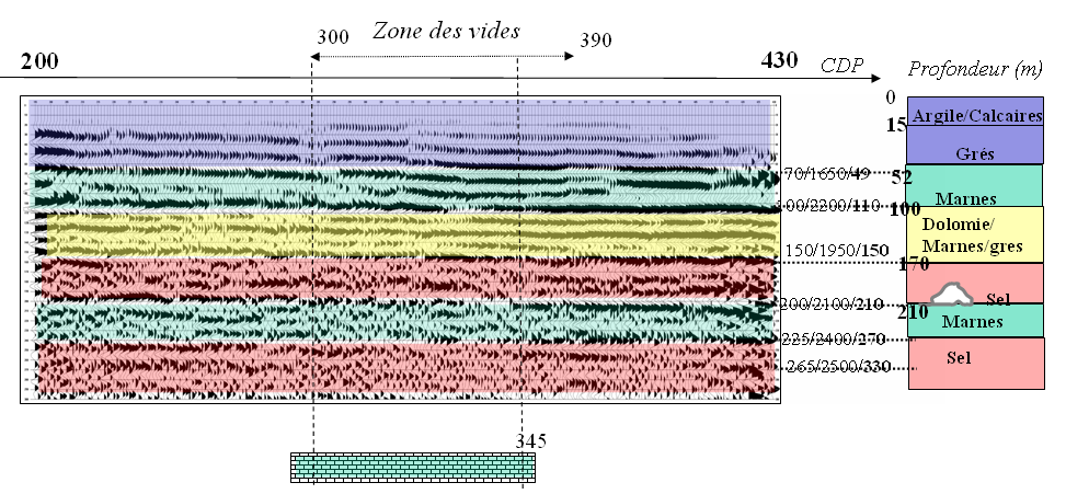 This is an exemple of seismic section image. Own work.